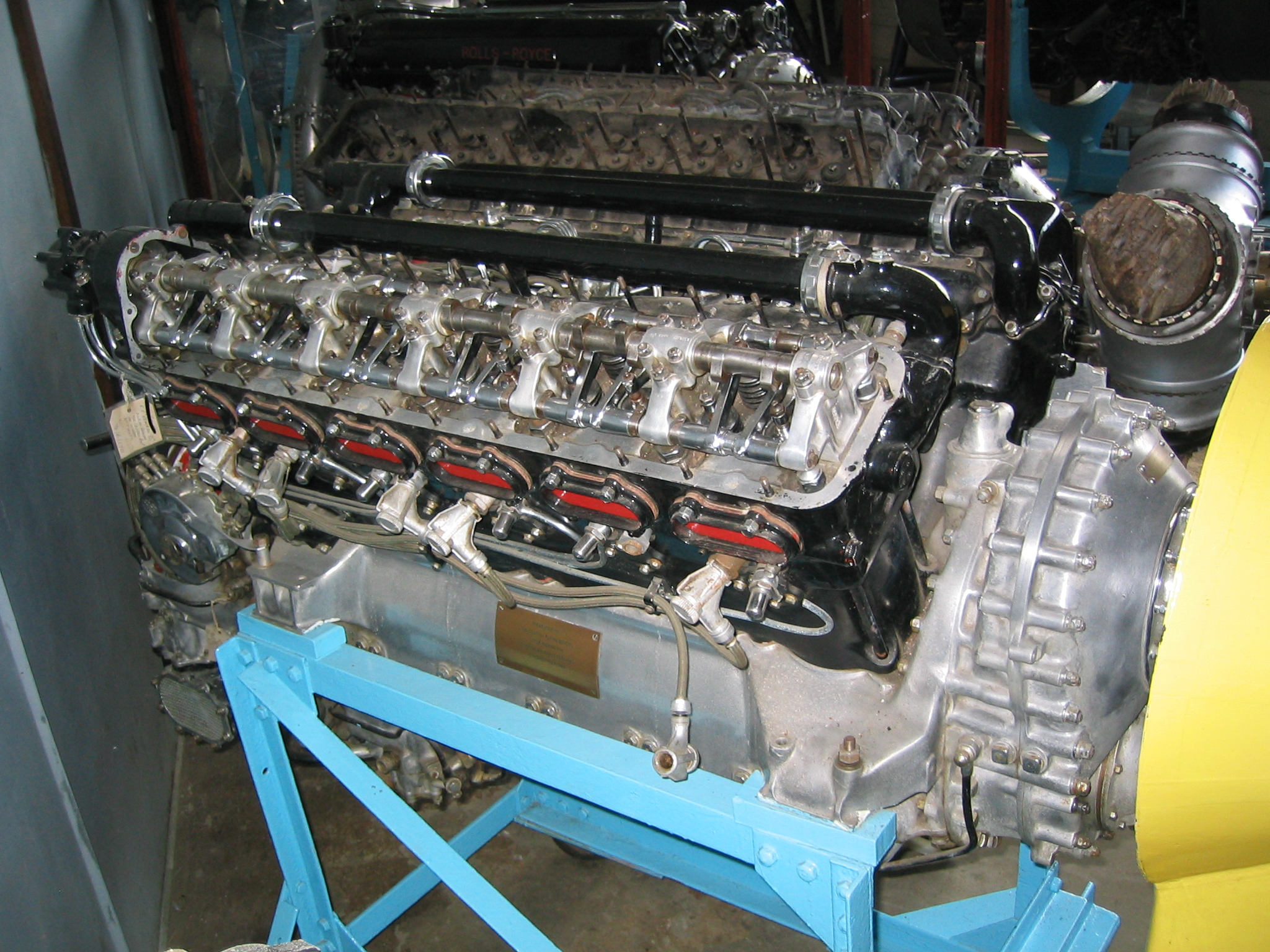 Rolls-Royce Kestrel at Brooklands PeterGrecian 14:26, 3 December 2006 (UTC)